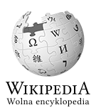 Wikipedia logo 2.0